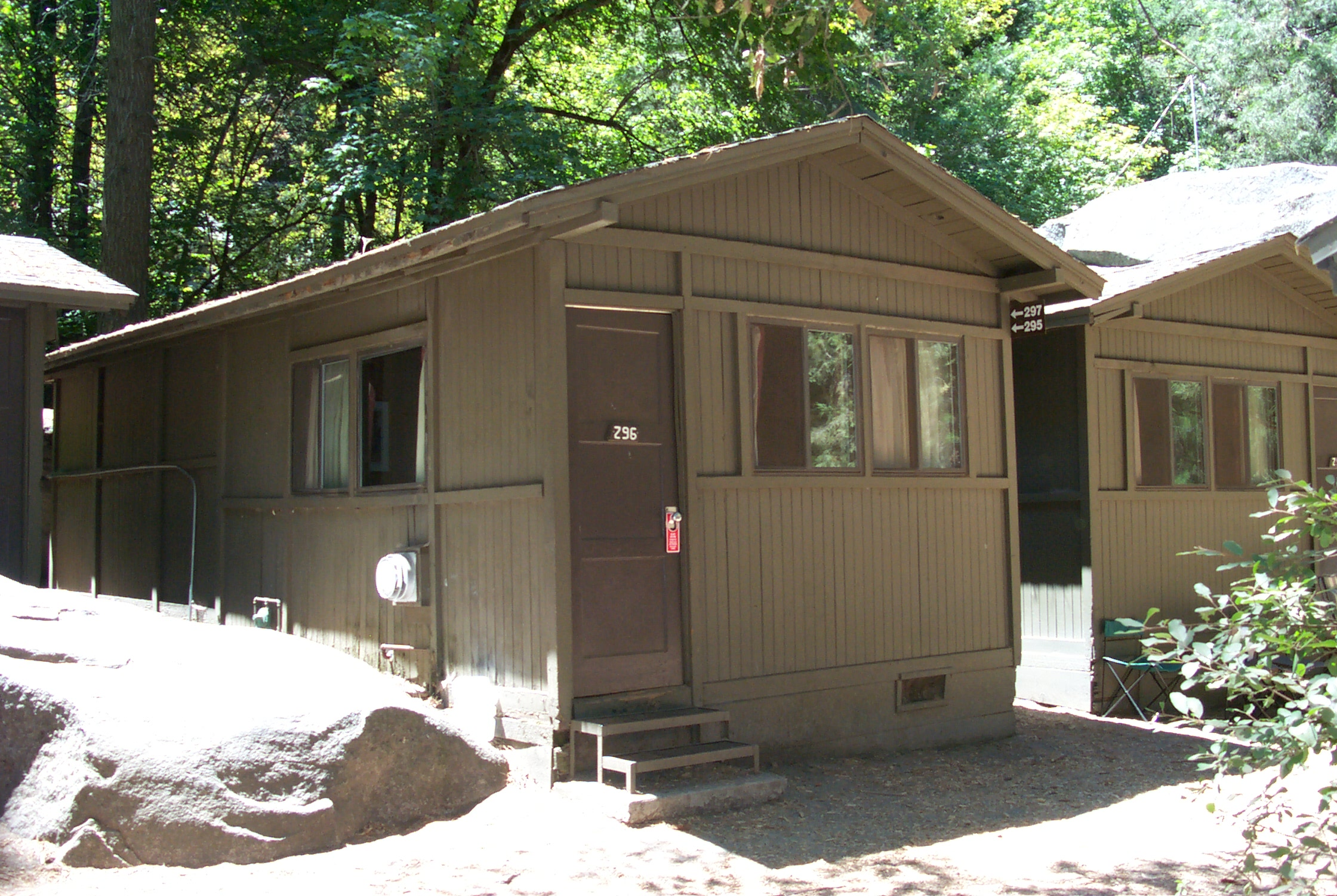 A photo of a wooden duplex cabin located in Curry Village, California. This photo is from the US National Park Service List of Classified Structures where it has the preferred structure name "Camp Curry Duplex Cabin without bath #296/297", structure number CVL029, and LCS ID 246670.